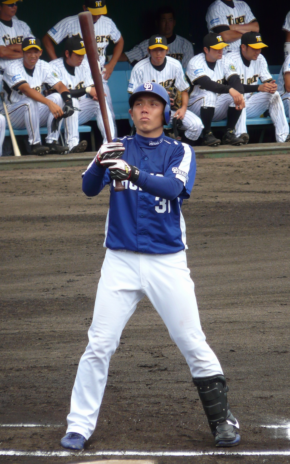 CD-Hiroki-Nakagawa20100715